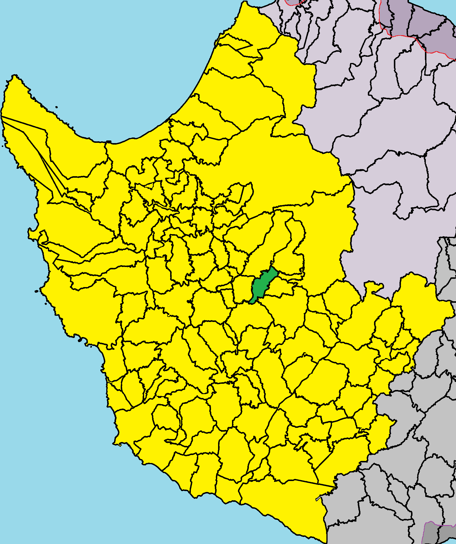 Kannaviou in Paphos District.